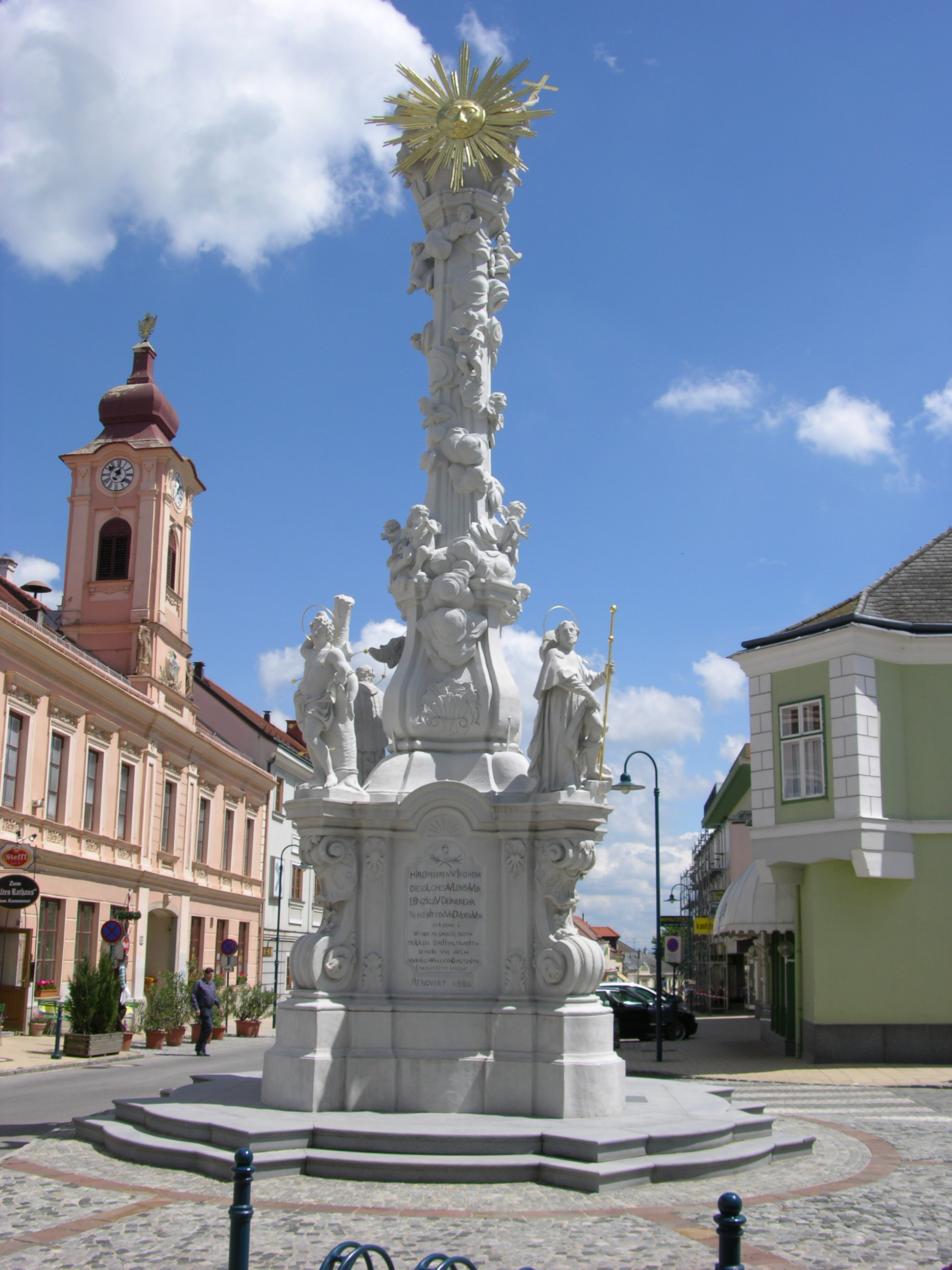 Plague column in Zistersdorf, Lower Austria. At the left side the old town hall, now courthouse.